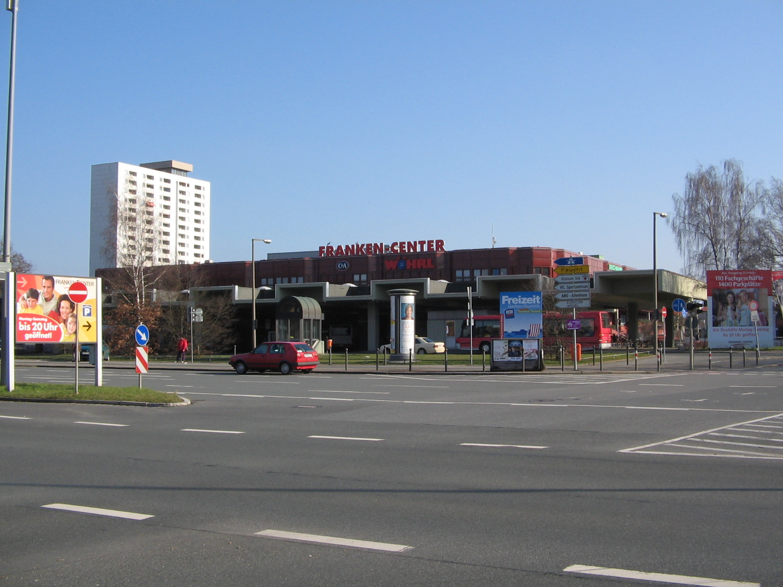 The mall "Franken-Center" in Nuremberg, Germany